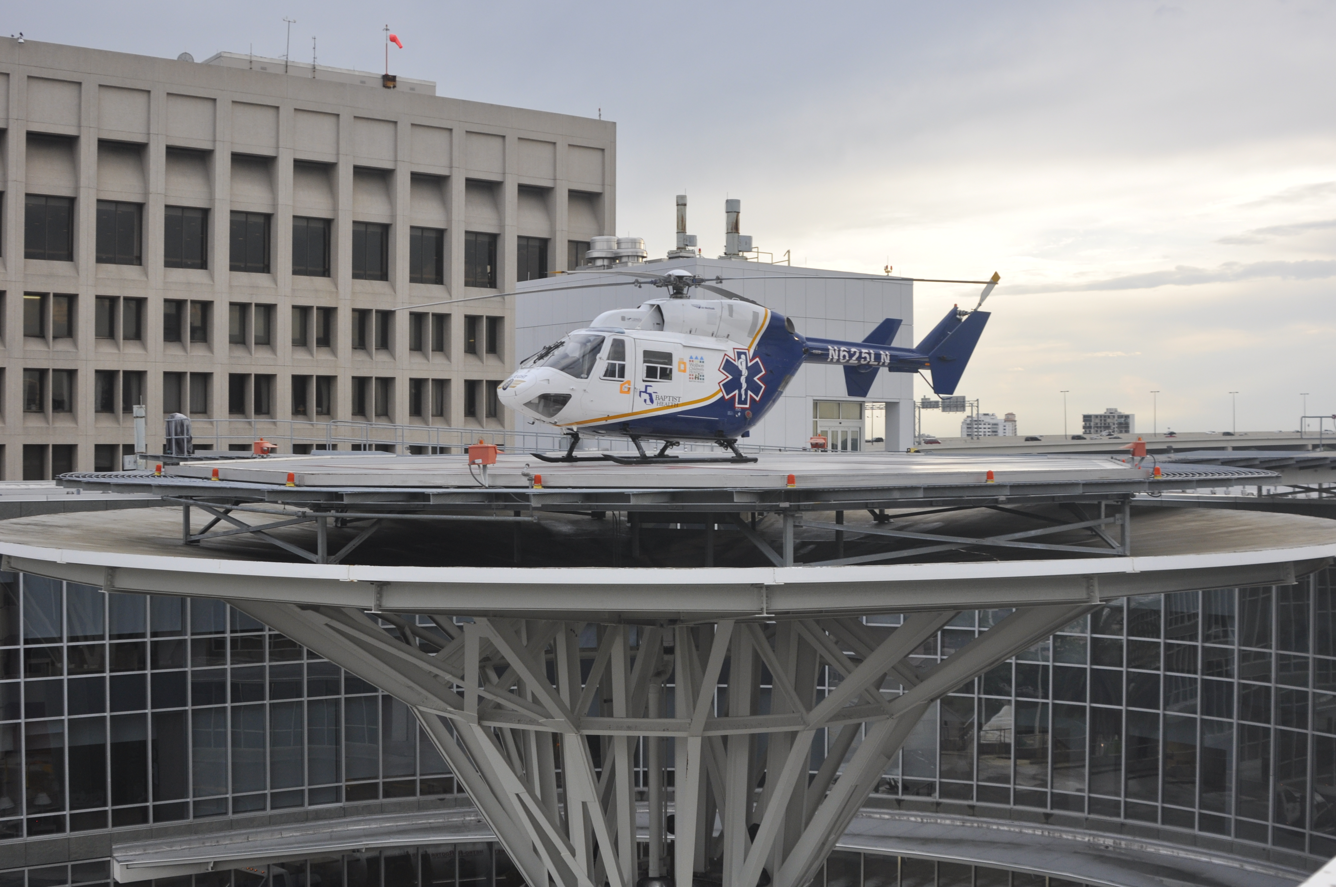 LifeFlight Helicopter Landing Pad